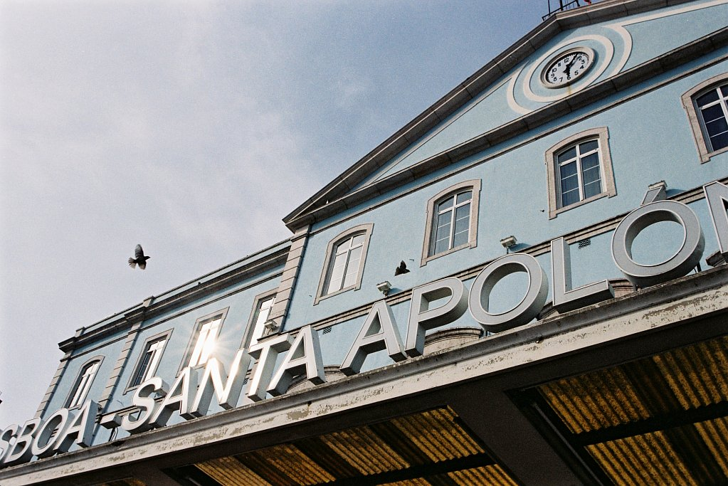 "Santa Apolonia" train station in Lisbon, Portugal